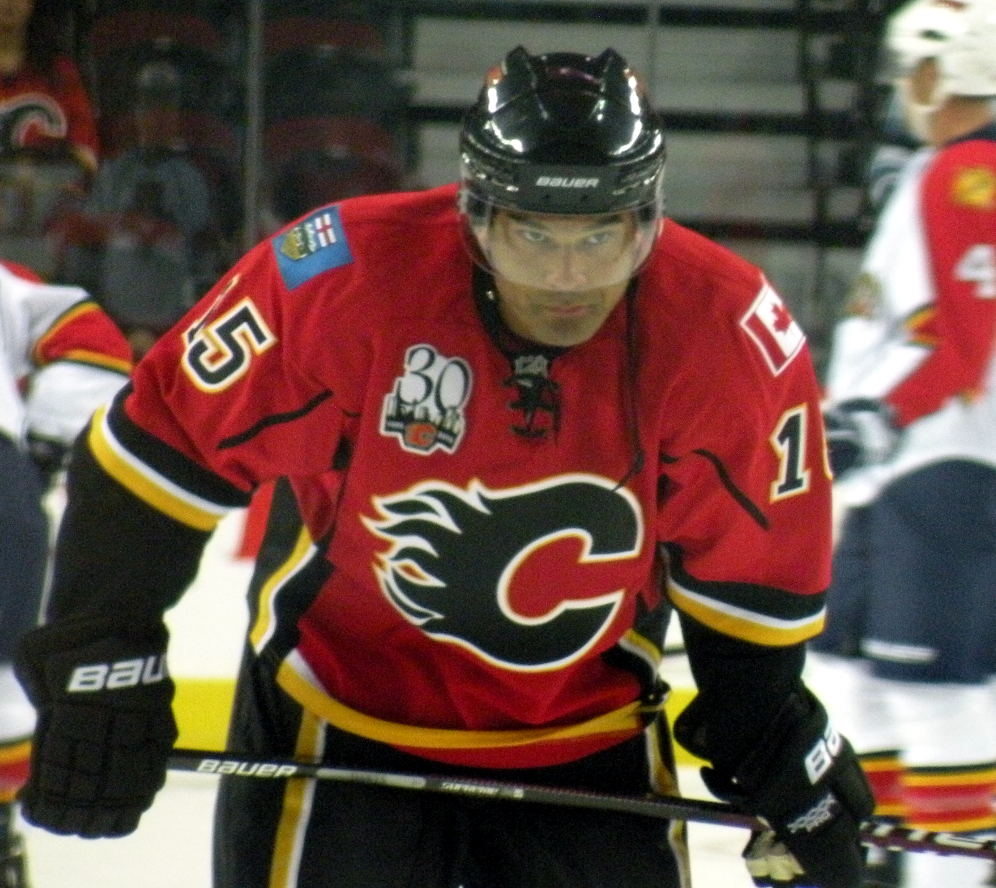 Calgary Flames forward Nigel Dawes during warm-up prior to a National Hockey League exhibition game against the Florida Panthers, in Calgary.